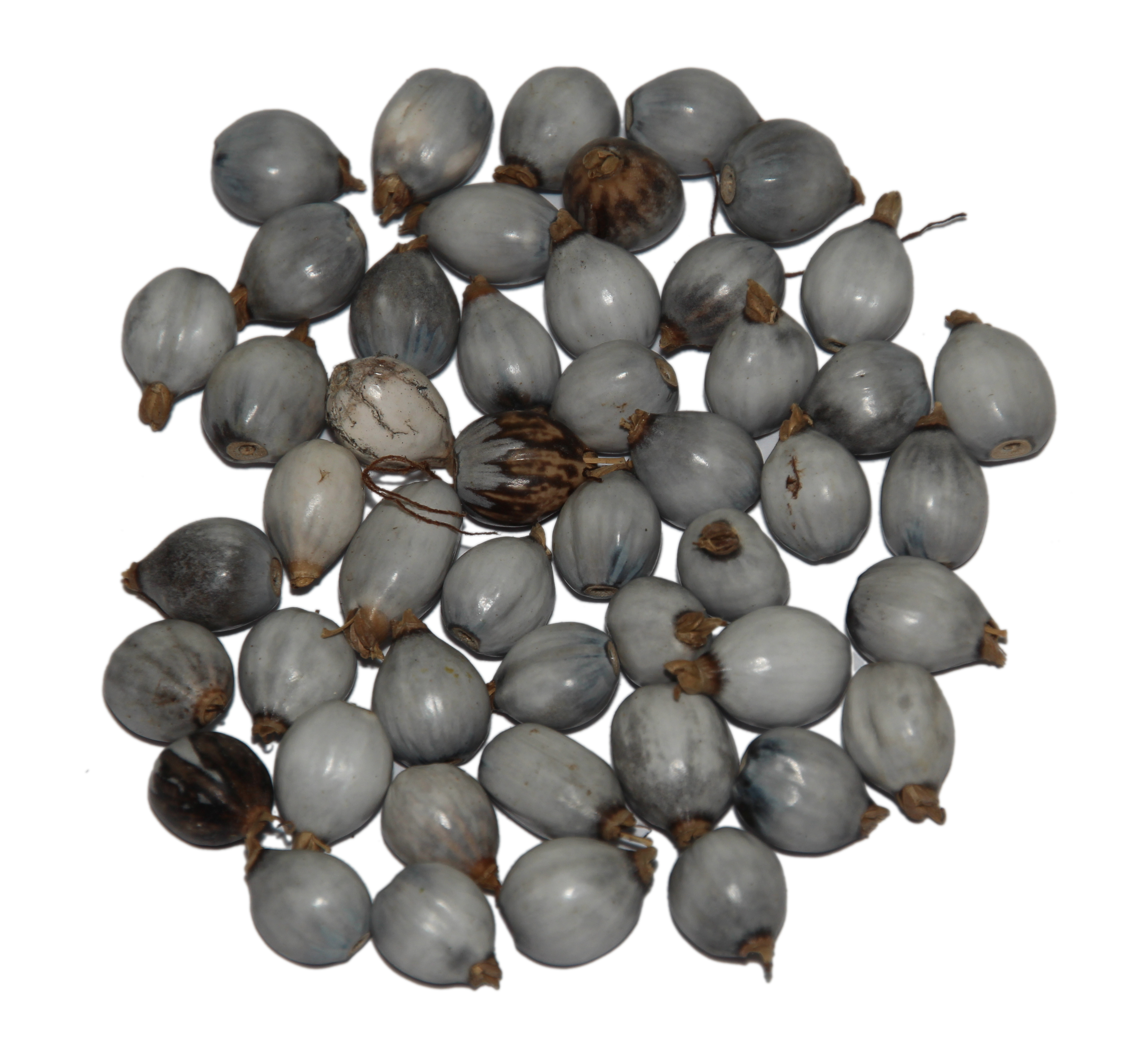 Seeds of Coix lacryma-jobi from Martinique, France.